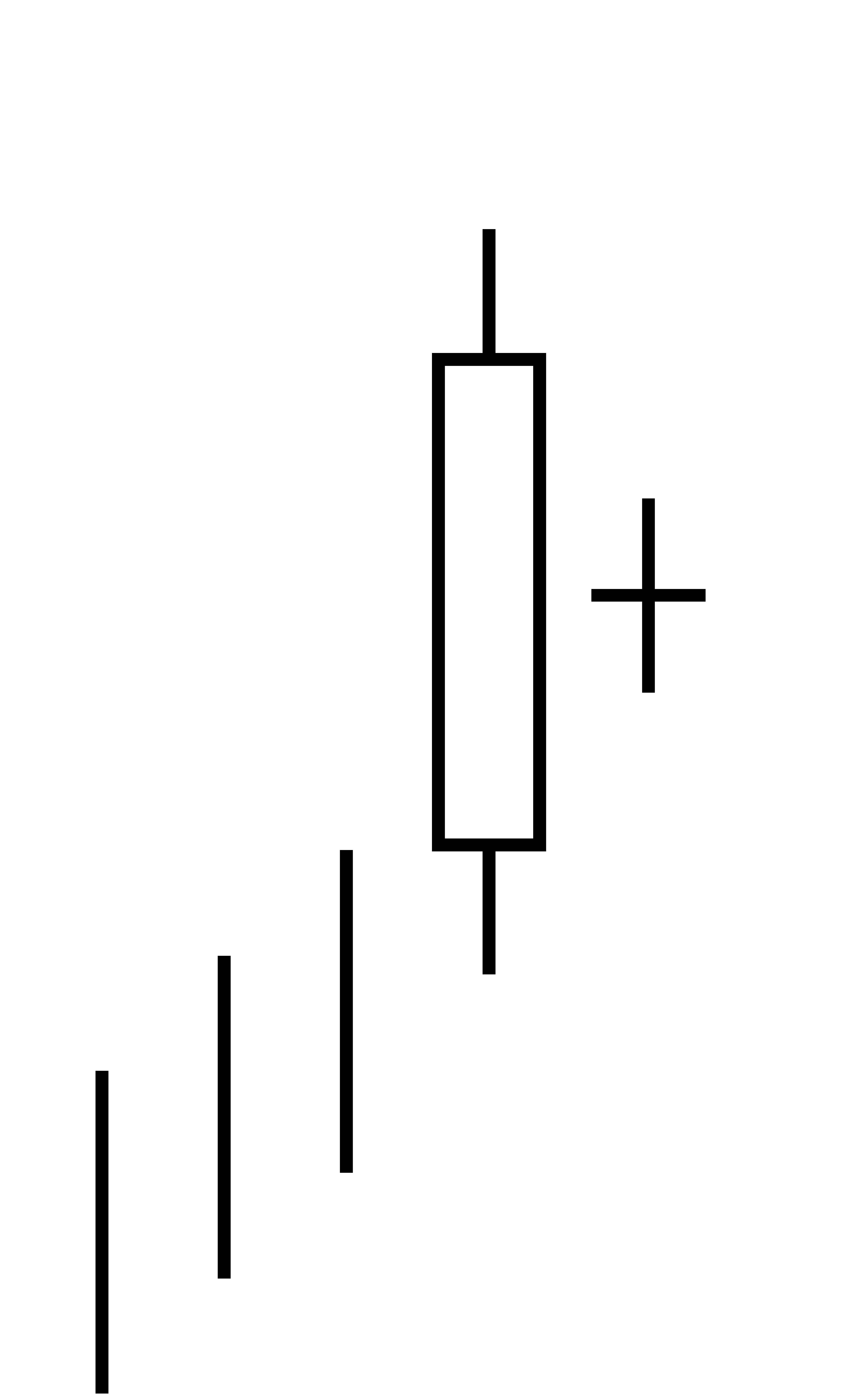 Bearish Harami Cross